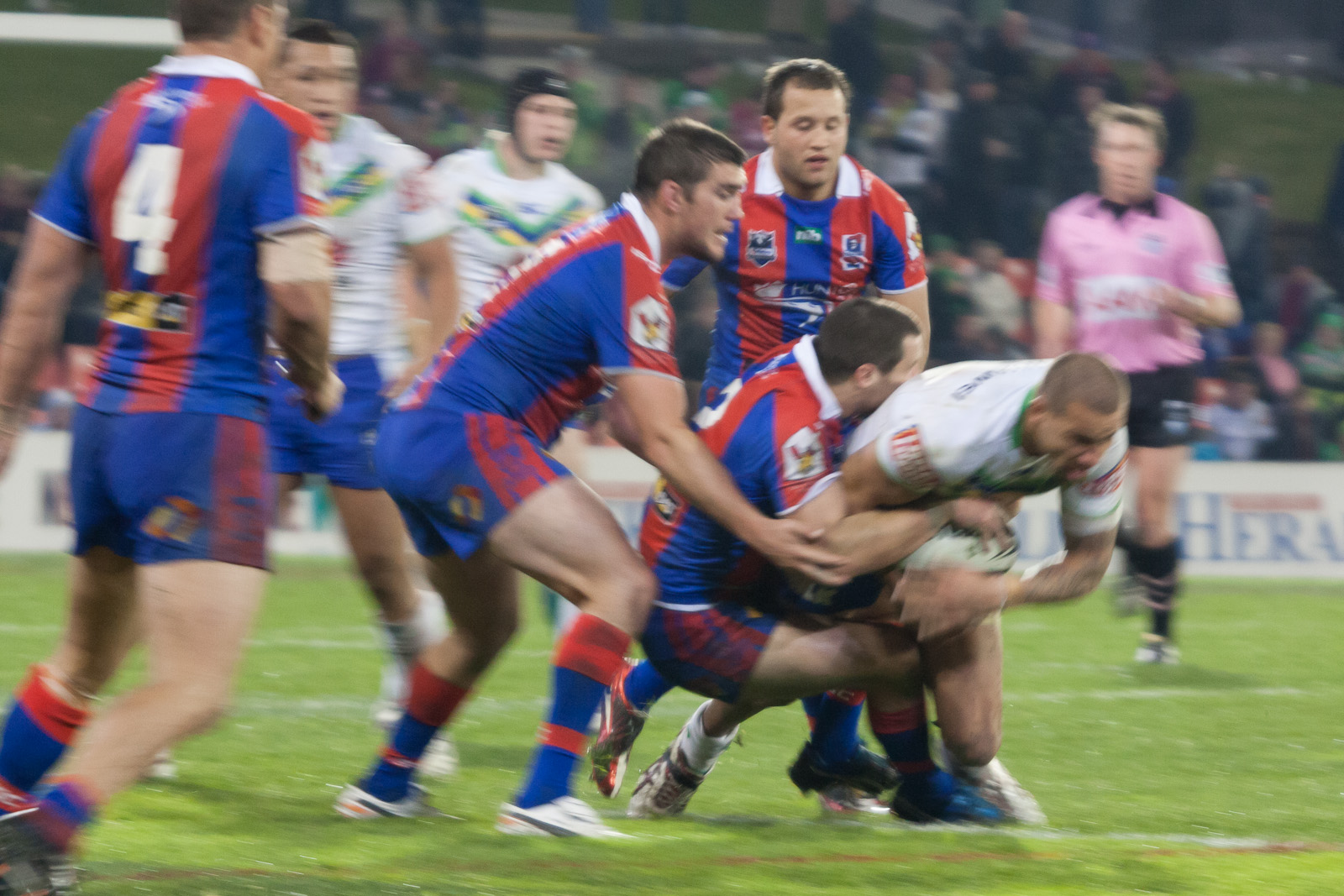 Tyrone Roberts